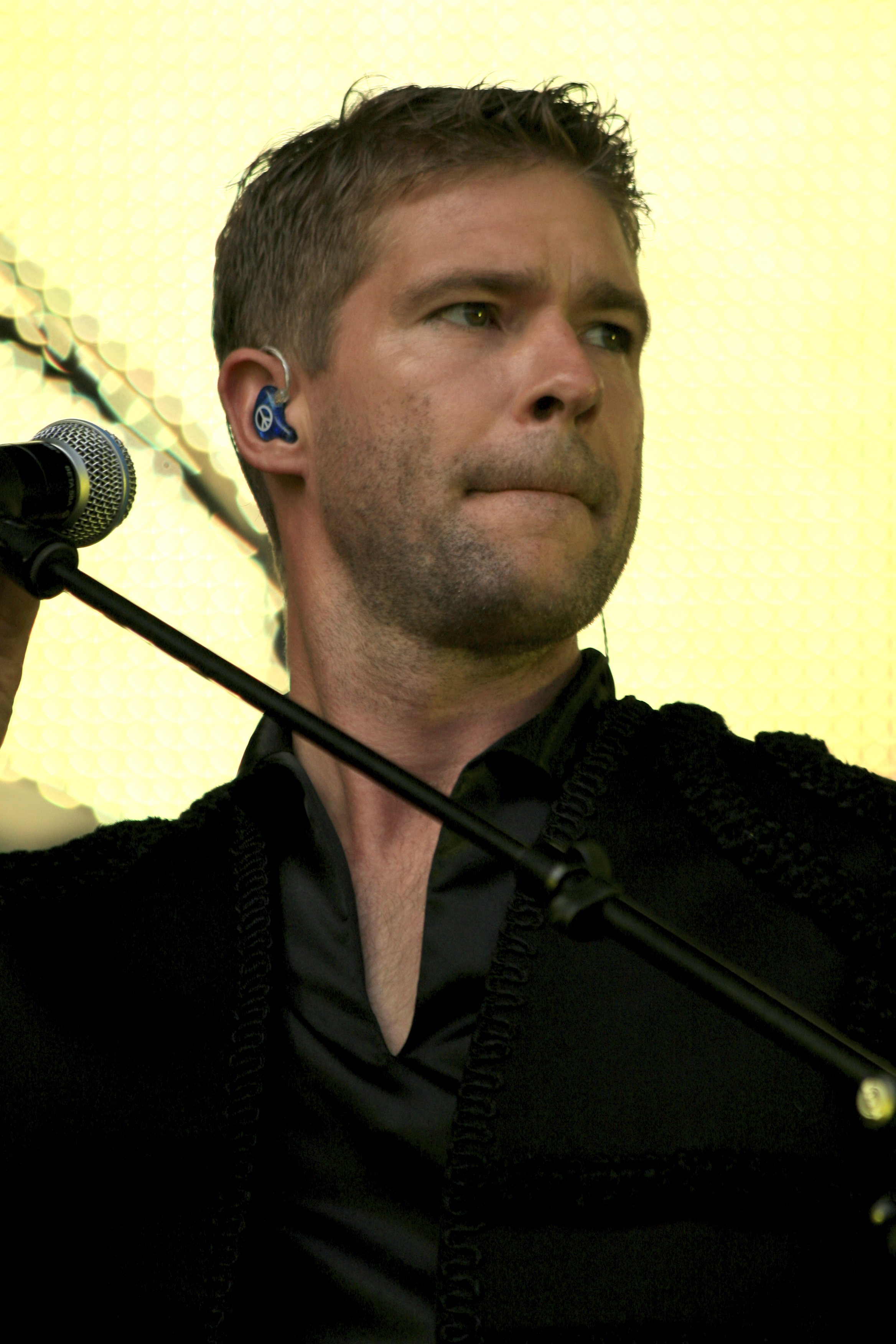 Søren Nystrøm Rasted from Aqua, at Grøn Koncert.